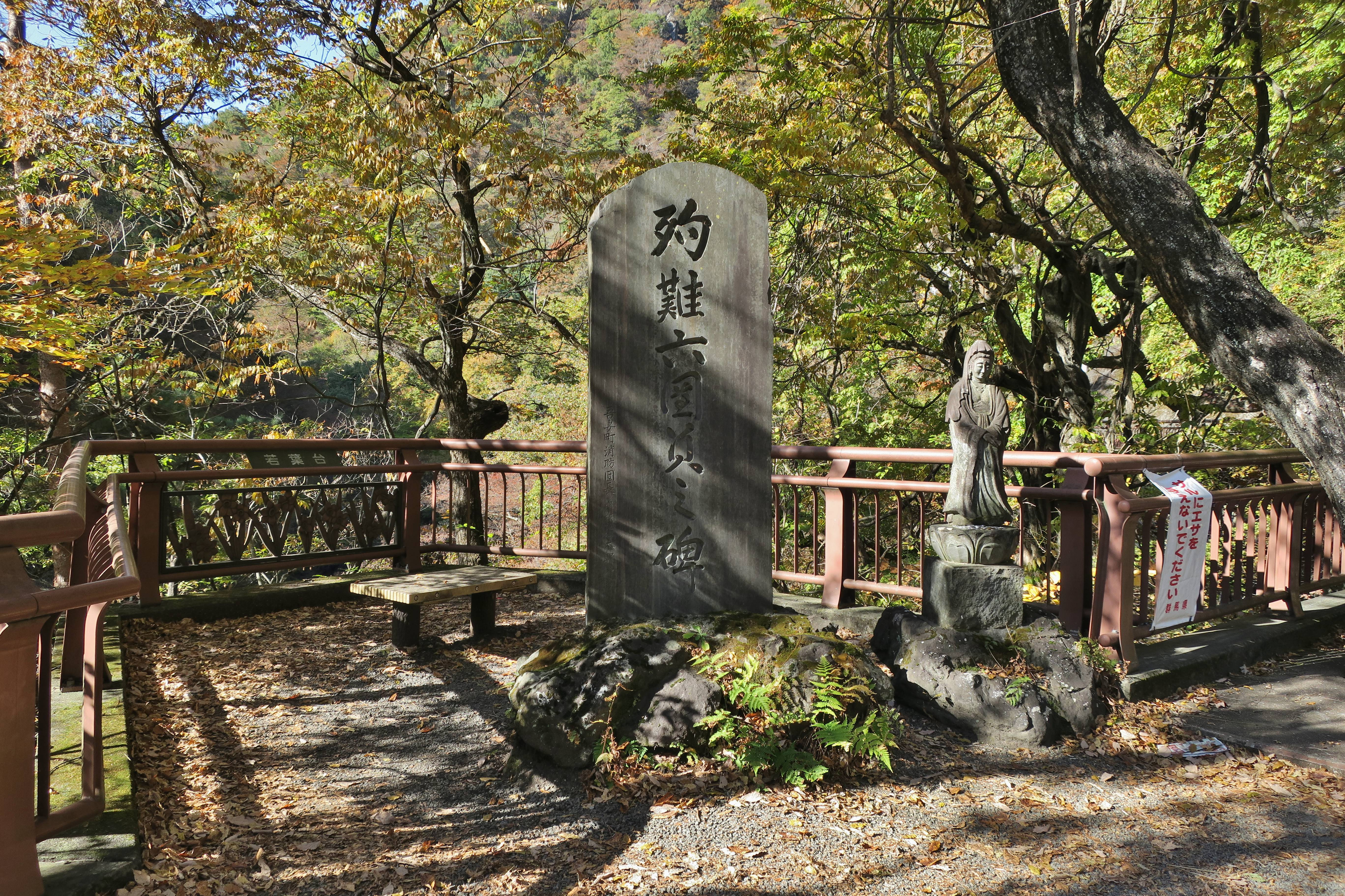 Agatsumakyo fire brigade fall accident cenotaph (Higashiagatsuma, Gunma).